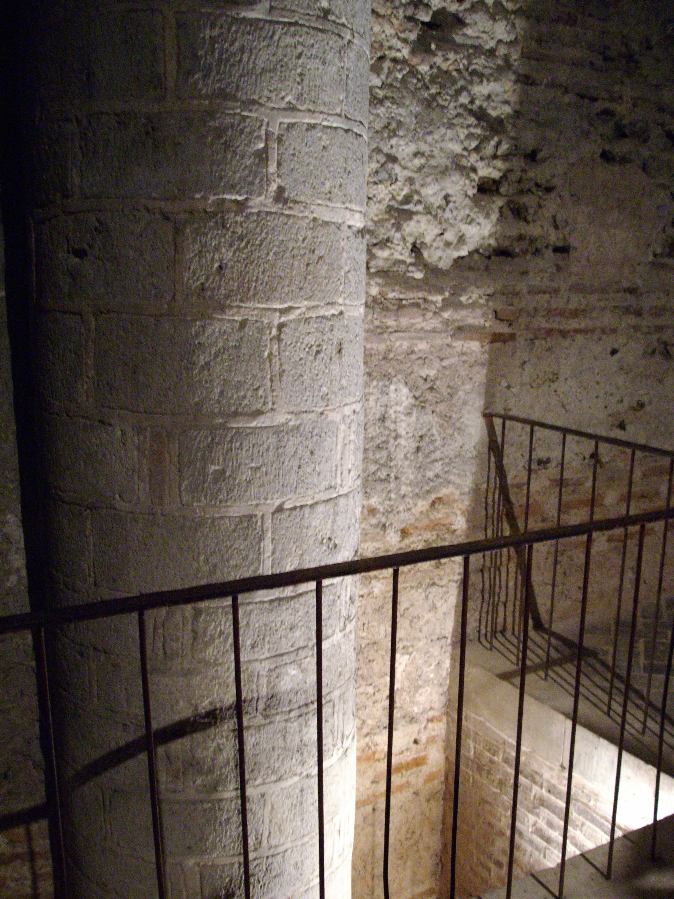 Crypt of the Chartres Cathedral in Chartres (France)